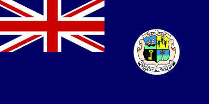 Old colonial flag of Mauritius, 1869-1906